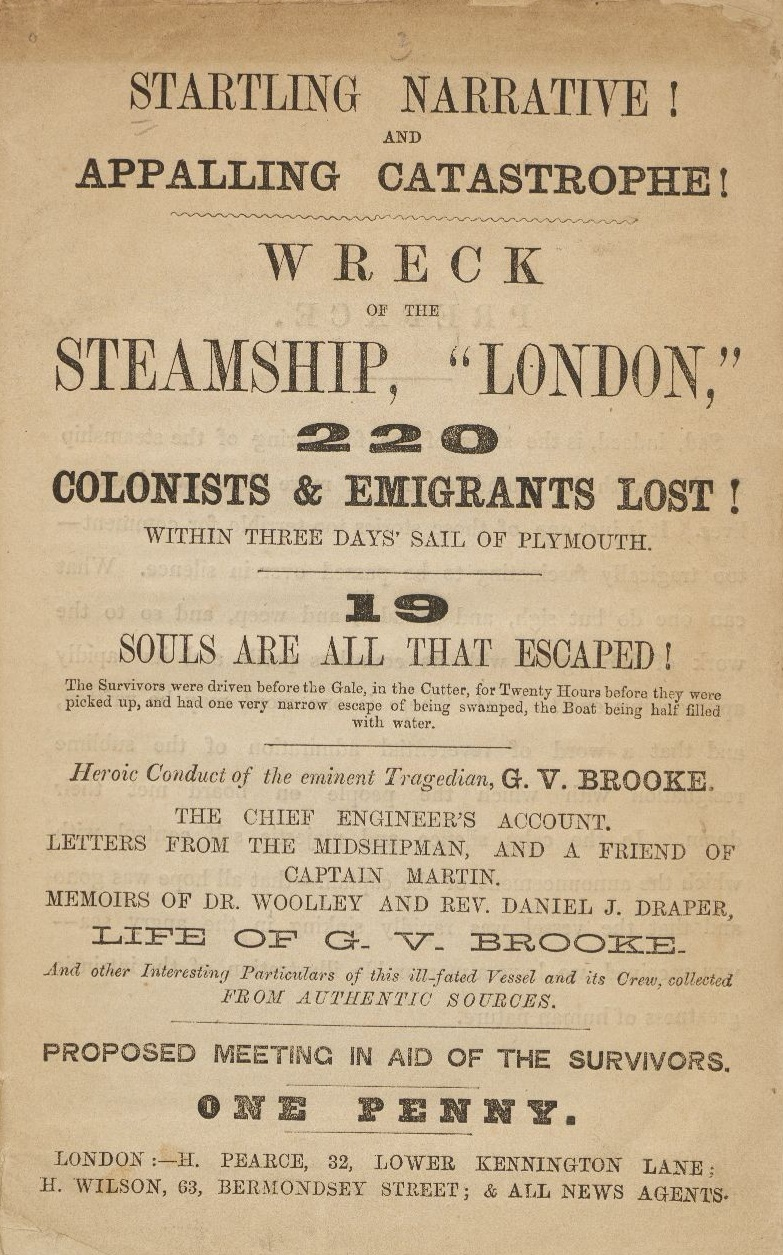 Title page of a pamphlet on the wreck of the steamship London, 1866, published by H. Pearce, London. "Startling narrative! And appalling catastrophe! Wreck of the steamship London, 220 colonists & emigrants lost! Within three days' sail of Plymouth. Proposed meeting in aid of the survivors..." The pamphlet also includes a brief biography of actor Gustavus Vaughan Brooke, who died on board, and is mentioned on the title page. Geog 4677.82, Houghton Library, Harvard University